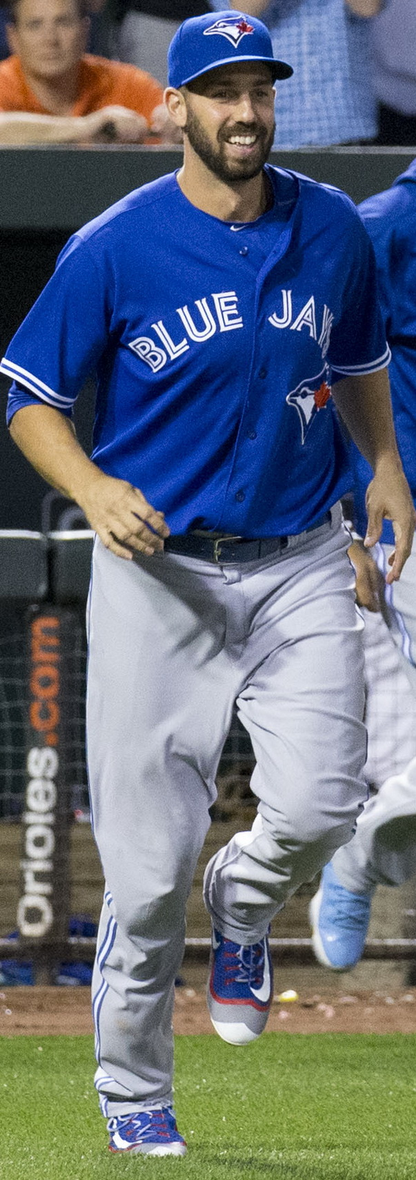 Chris Colabello with Blue Jays